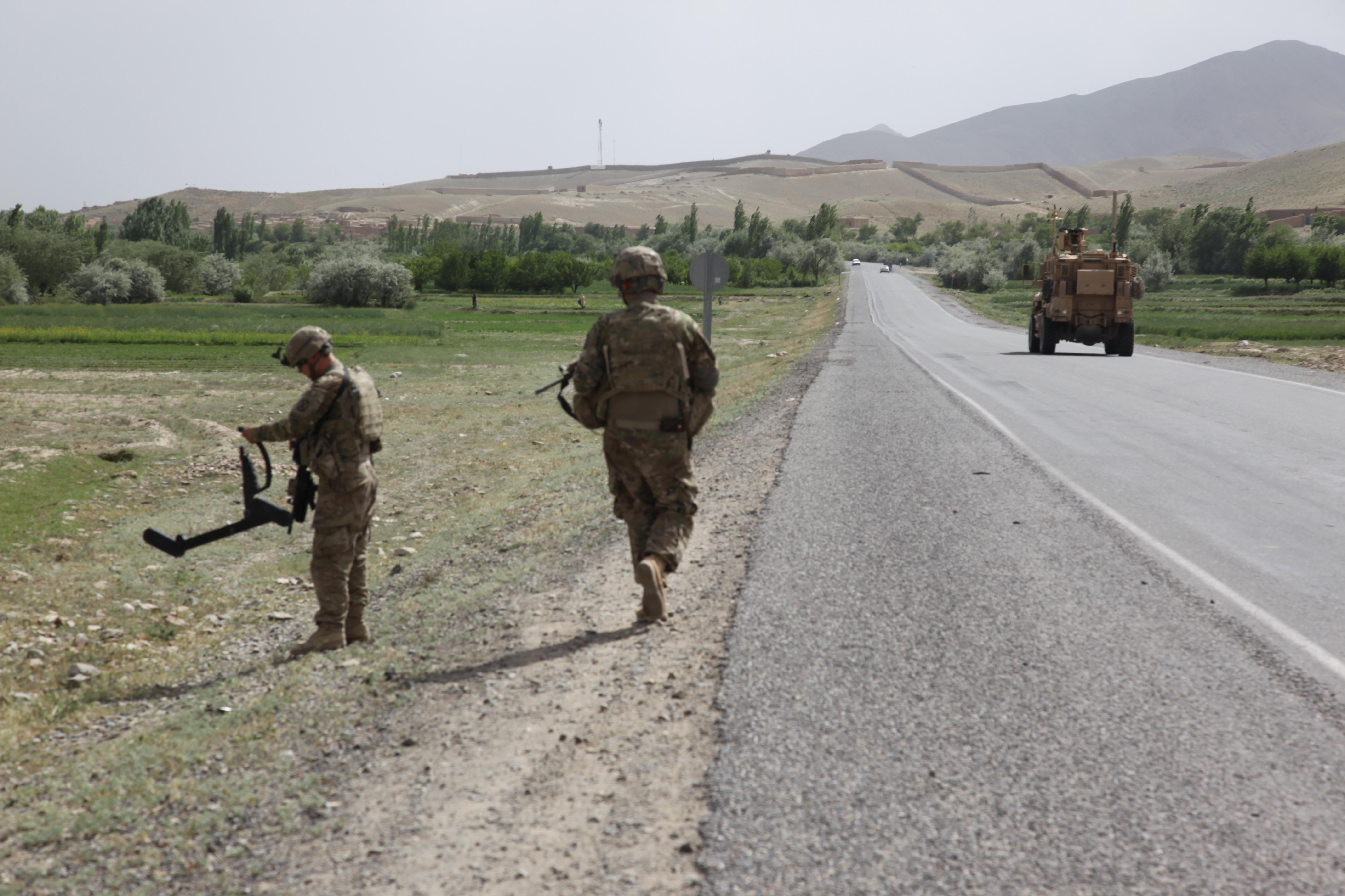 U.S. Army Sgt. Jessie Harmon and Pfc. Matthew Perkins, 1st Platoon, Company C, 2nd Battalion, 4th Infantry Regiment, 4th Brigade Combat Team, 10th Mountain Division patrol through Observation Post Savanna, Sayed Abad, Wardak province, Afghanistan, during a resupply mission, May 17, 2011. (Photo ID: 409847)